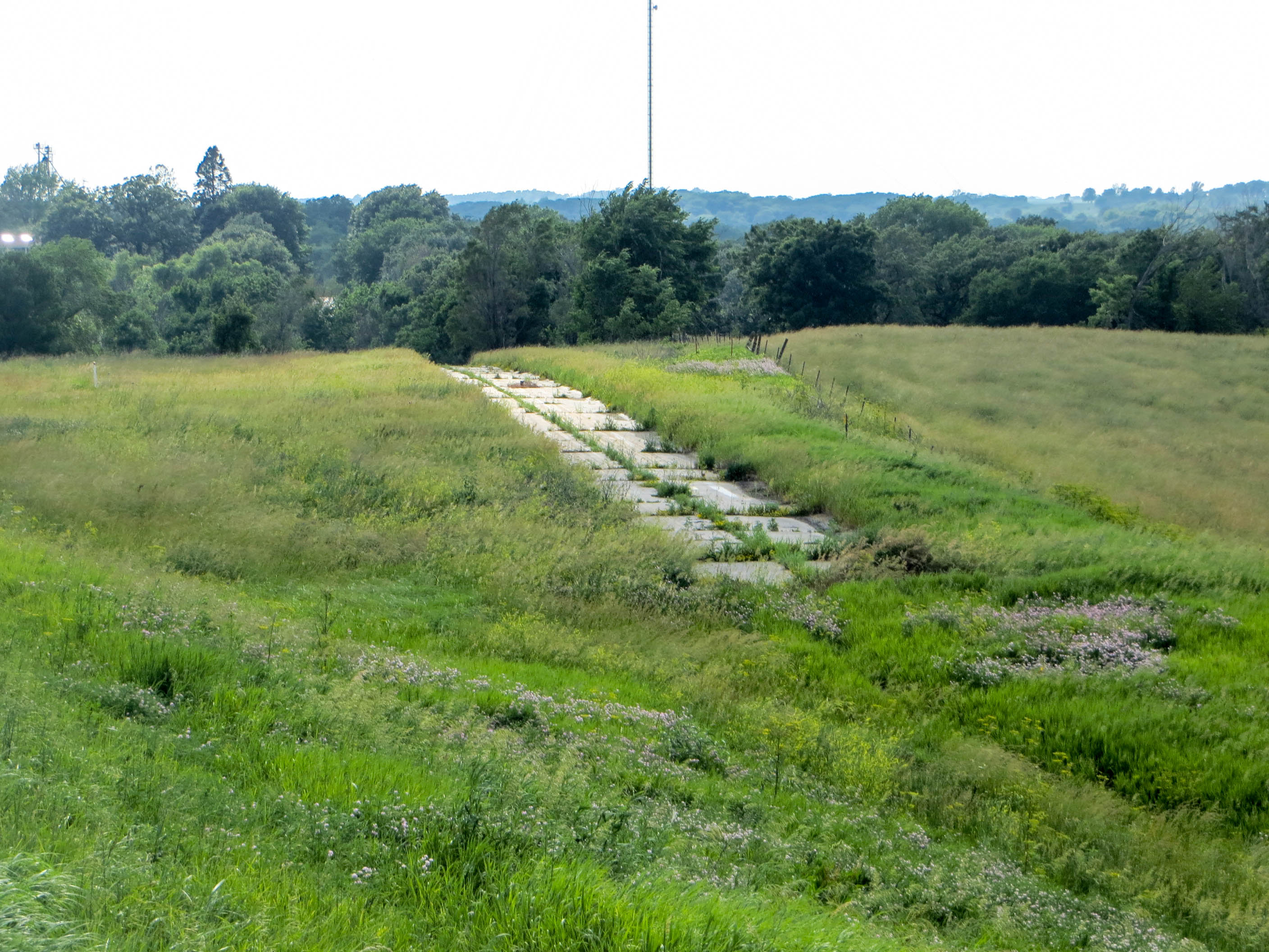 Old, now bypassed U.S. Highway 34.